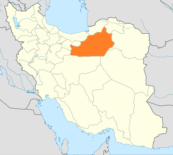 Locator map of Iran